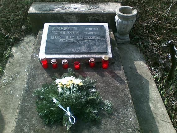 Tomb of Milan Alexandru Florian graphic (1937-2004), Hajongard cemetery, Cluj-Napoca